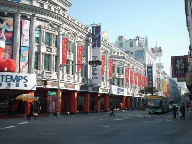 View of Zhongshan Rd, Xiamen